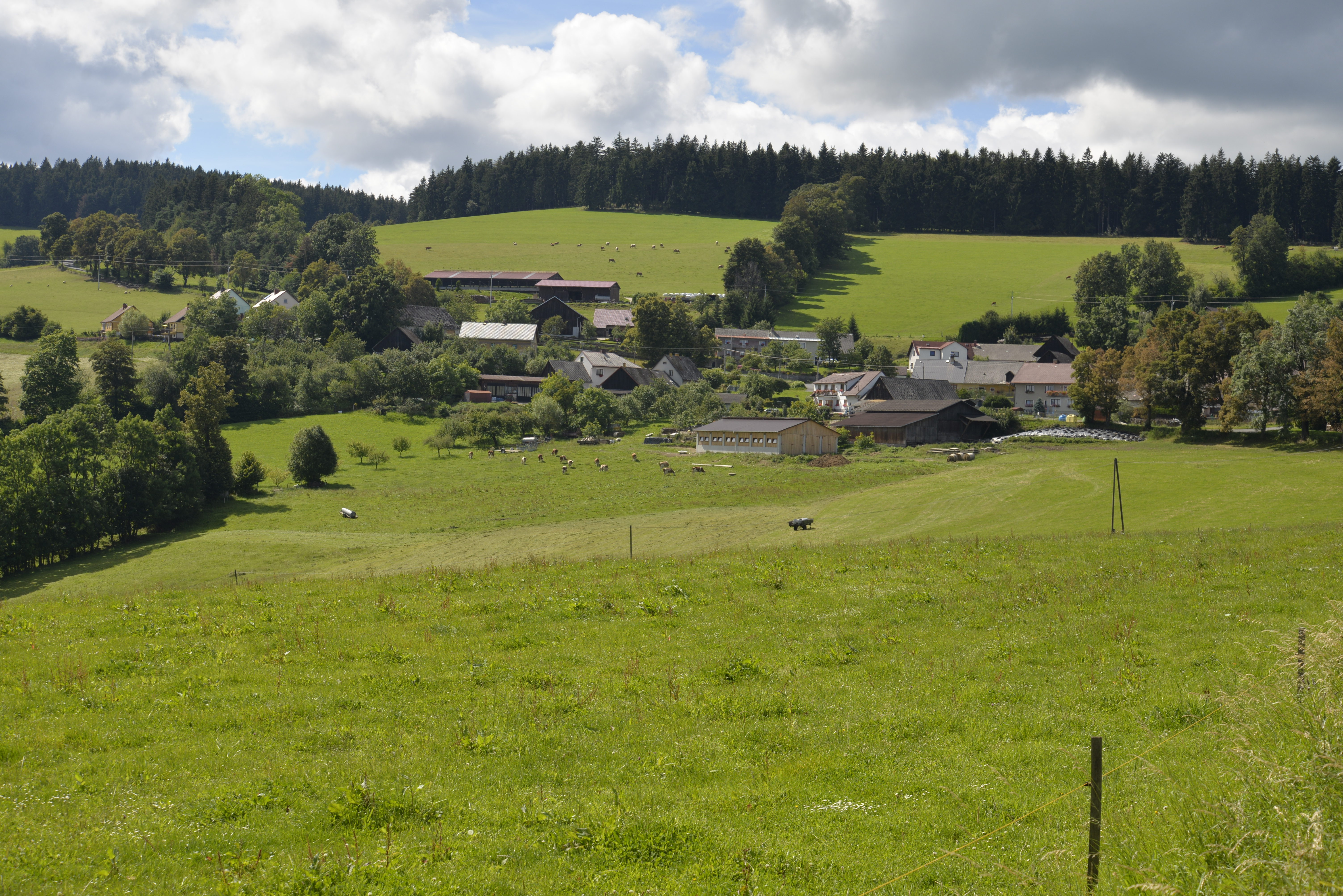 Zámyšl - small village, part of Hlavňovice in Klatovy District